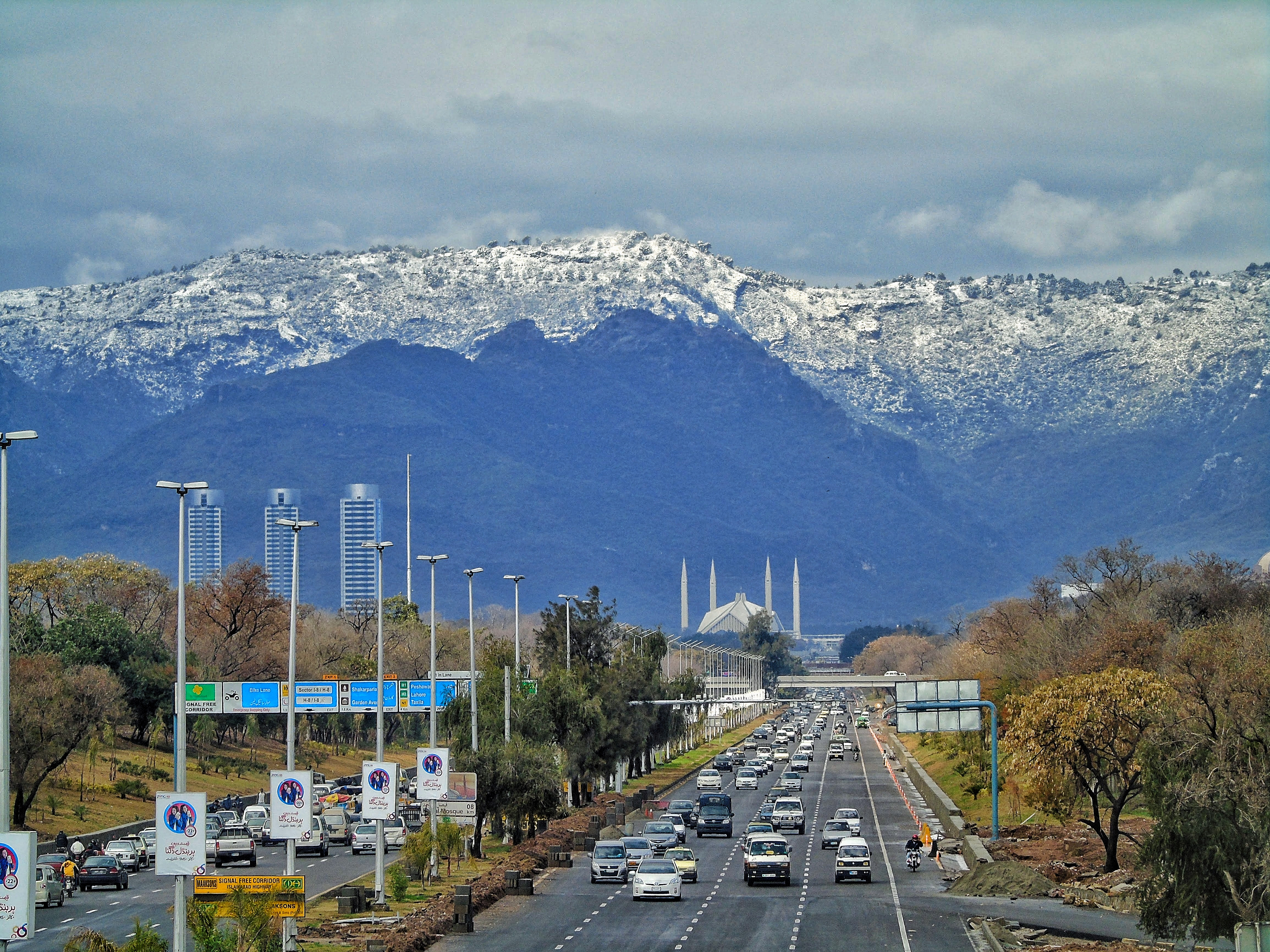 Faisal Mosque This is a photo of a monument in Pakistan identified as the ICT-5